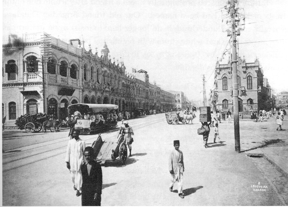 view of the Bunder Road (now M. A. Jinnah Rd.) The Max Denso Hall (completed 1886) can be seen in this picture. Karachi, Sind, Pakistan